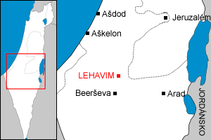 Localization of Lehavim within Israel.